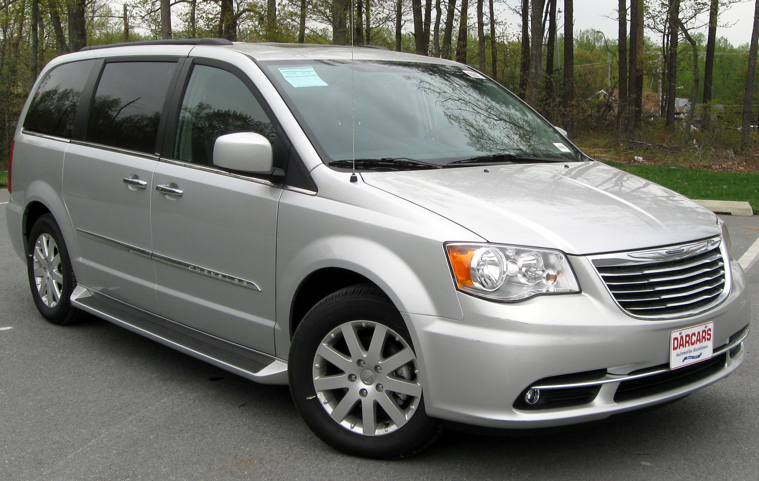 2011 Chrysler Town & Country photographed in Silver Spring, Maryland, USA.